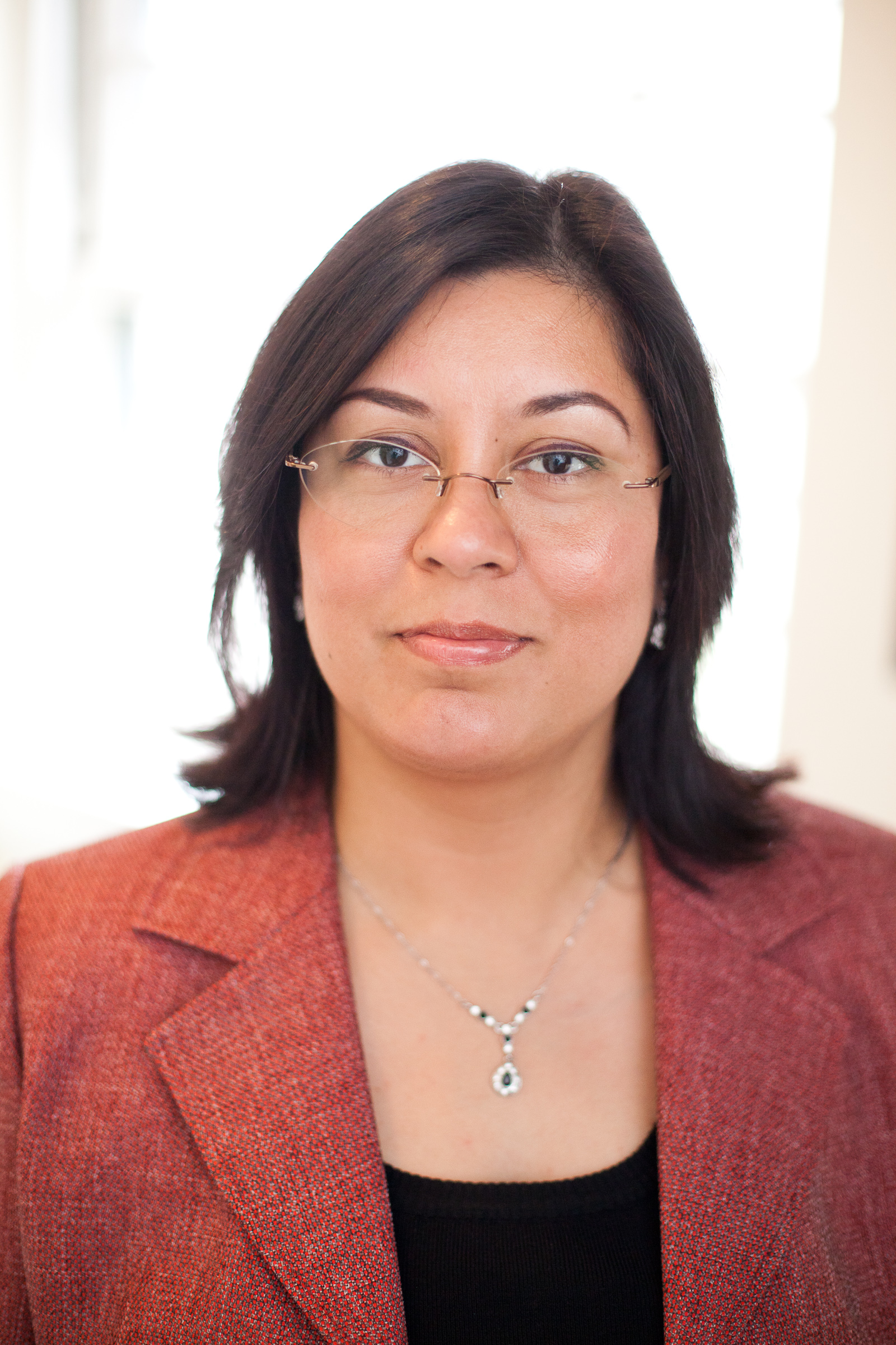 Shaily Mahendra - PopTech 2011 - Camden Maine USA